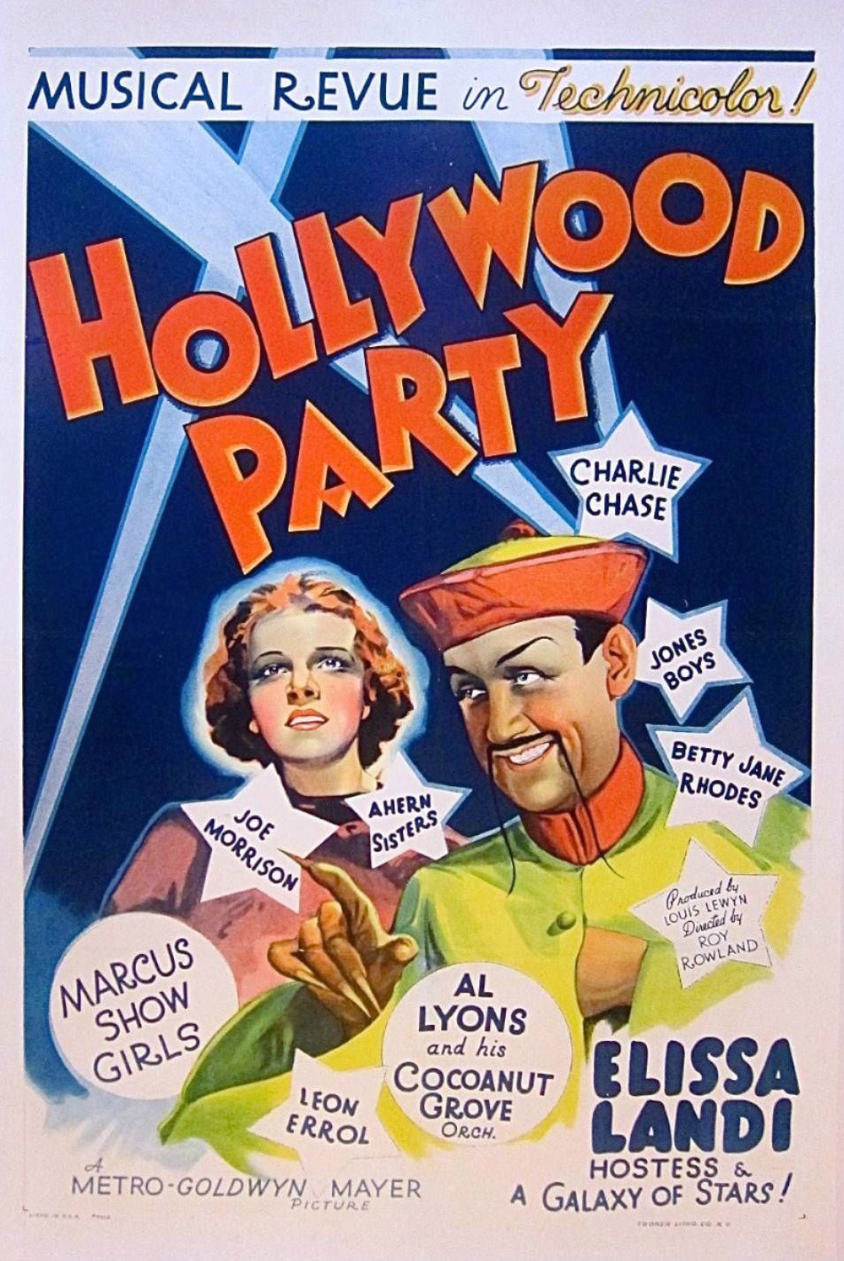 Poster for the 1937 film Hollywood Party.